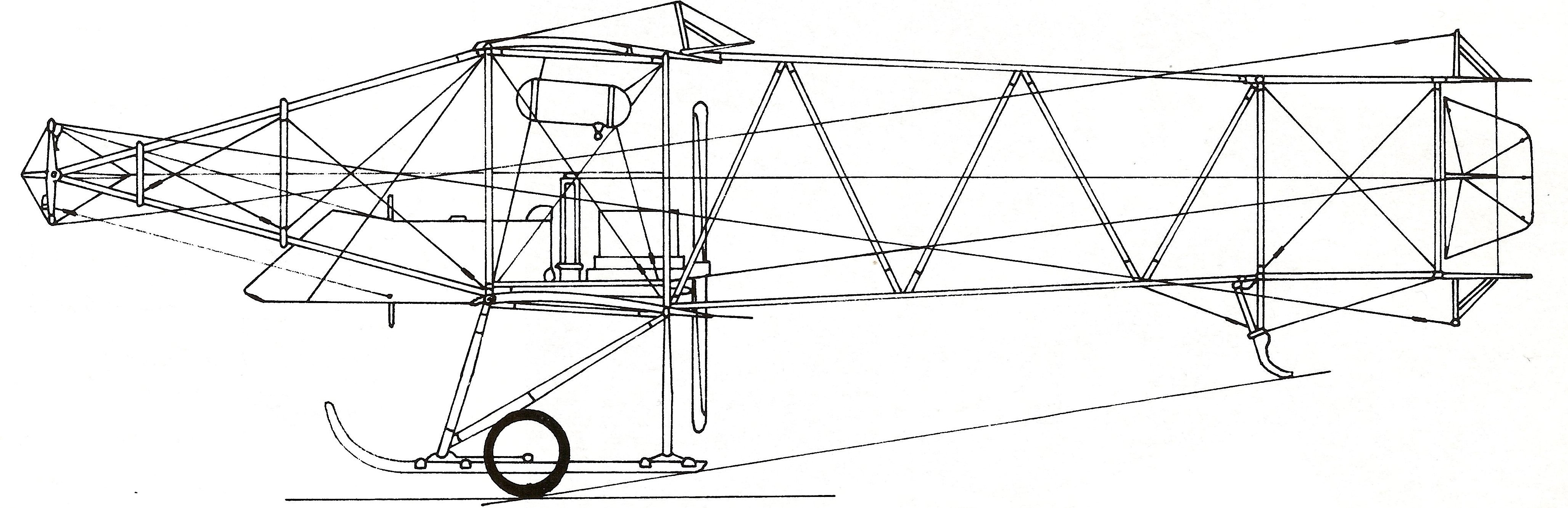 Albatros F-2